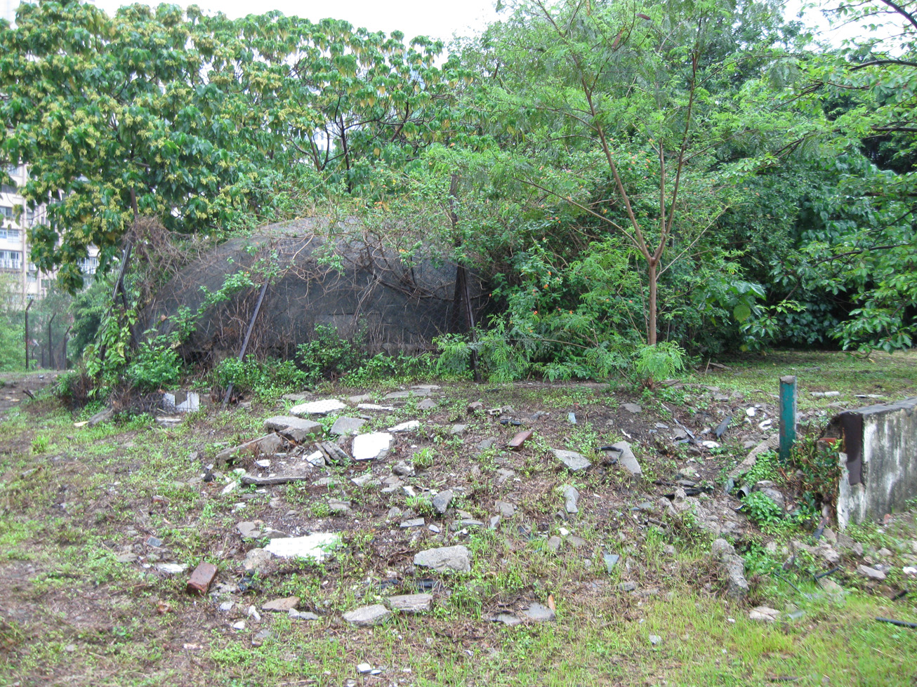 blockhouse in taihum village